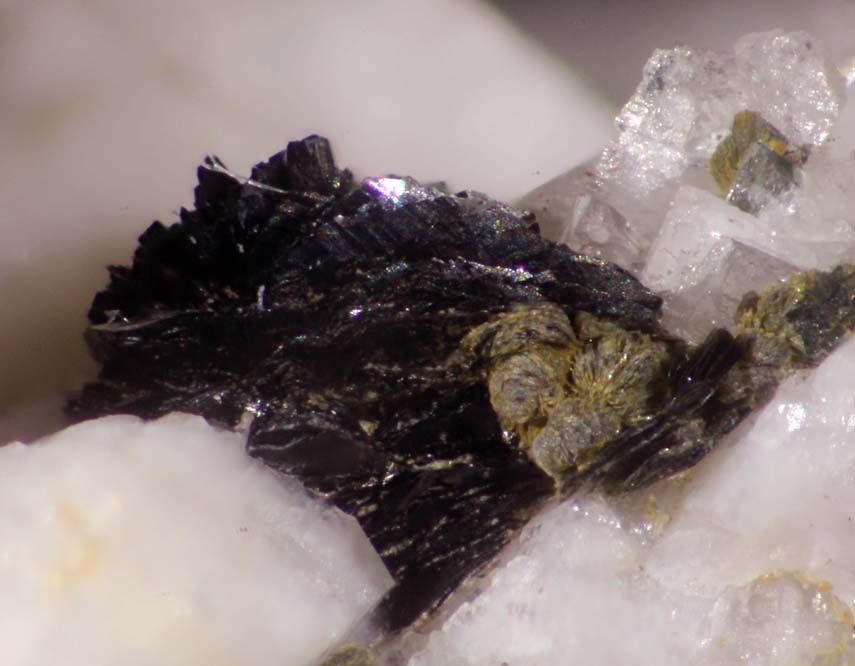 Cervandonite is a classic and very sought after mineral from Binntal. This specimen has a wonderful black cervandonite rossette. The mineral has only been found in two very close localities in the Alps (Binntal and Cervandone, which are geologically analogous), so it is almost a one locality mineral. From: Wanni Glacier, Binn Valley, Wallis, Switzerland.